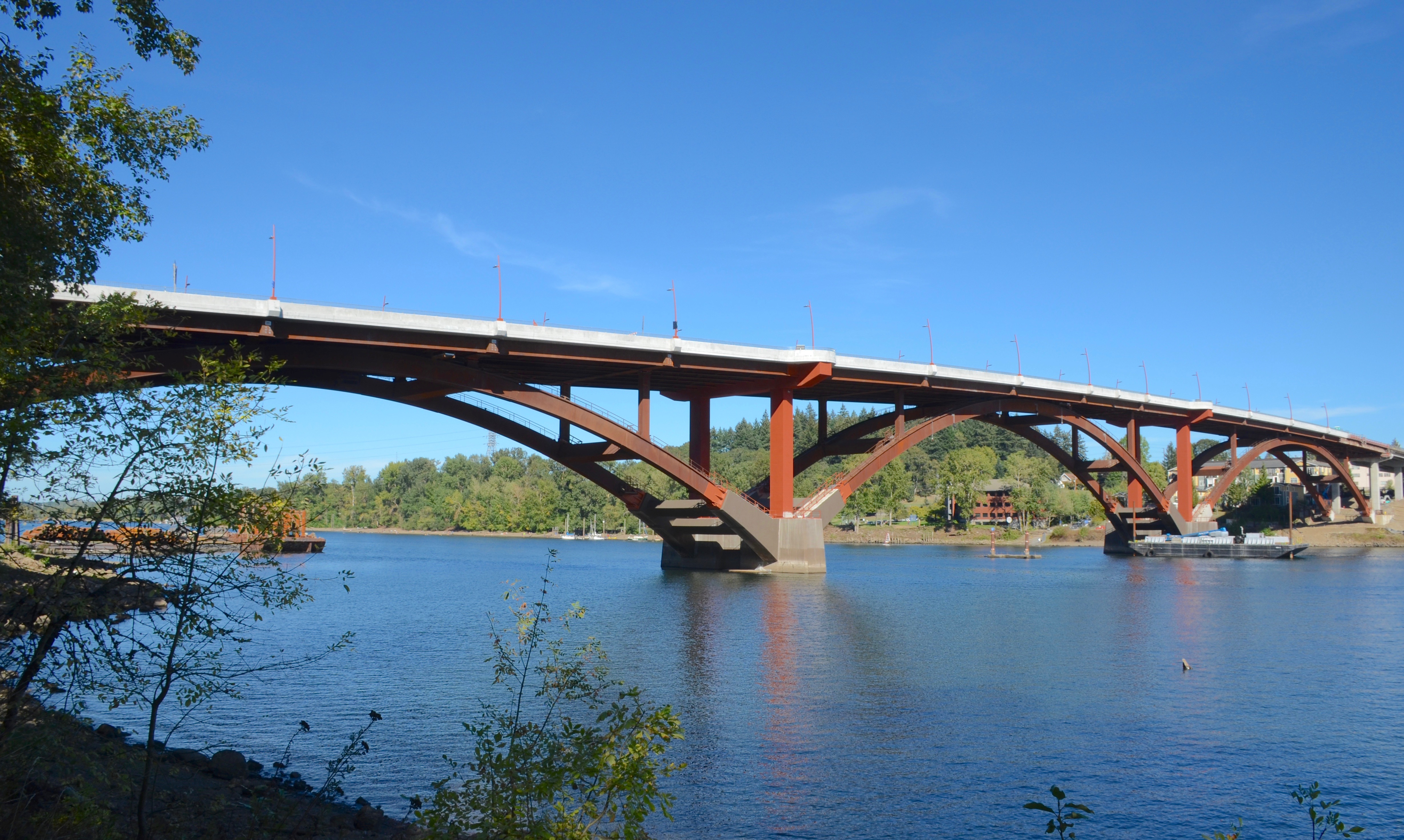 The new Sellwood Bridge, viewed from the southwest, from Powers Marine Park, in late September 2016. This was seven months after it opened to traffic but with construction not yet finished on the bridge's the easternmost section. The old bridge, which had been adjacent during the new bridge's construction, was dismantled a few months earlier. On the day of the photo (a Sunday), the bridge was temporarily closed to vehicle traffic, to allow work to seal the bridge deck.